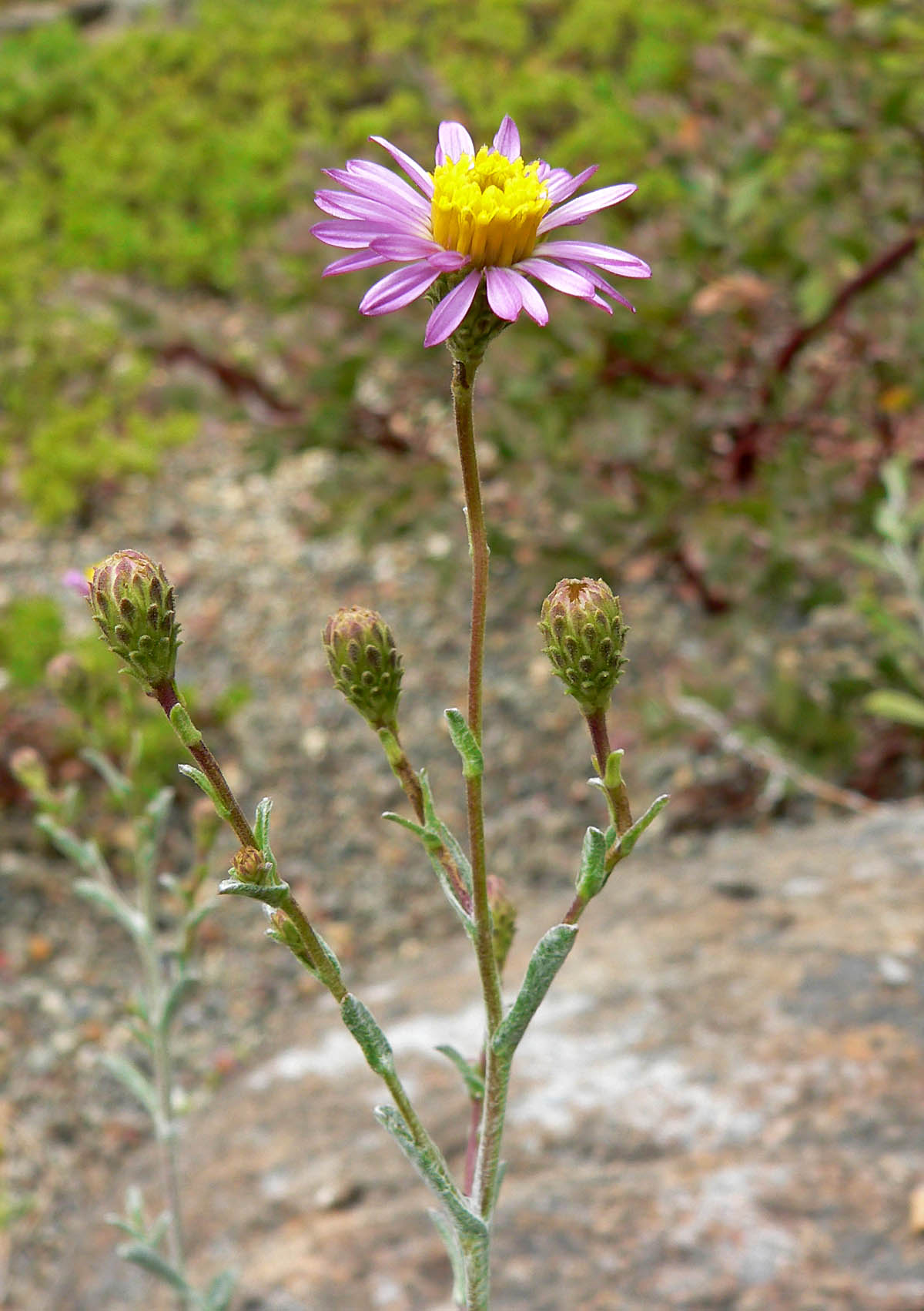 Photo of Lessingia filaginifolia var. filaginifolia at the Regional Parks Botanic Garden